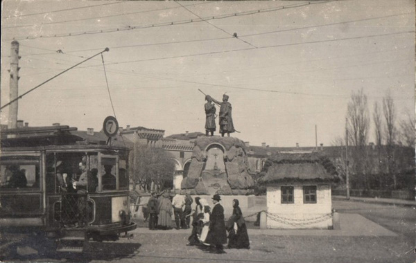 A photo of Iskra and Kochubey monument in old Kyiv. The monument was dismantled by authorities of Ukrainian People Republic in 1918